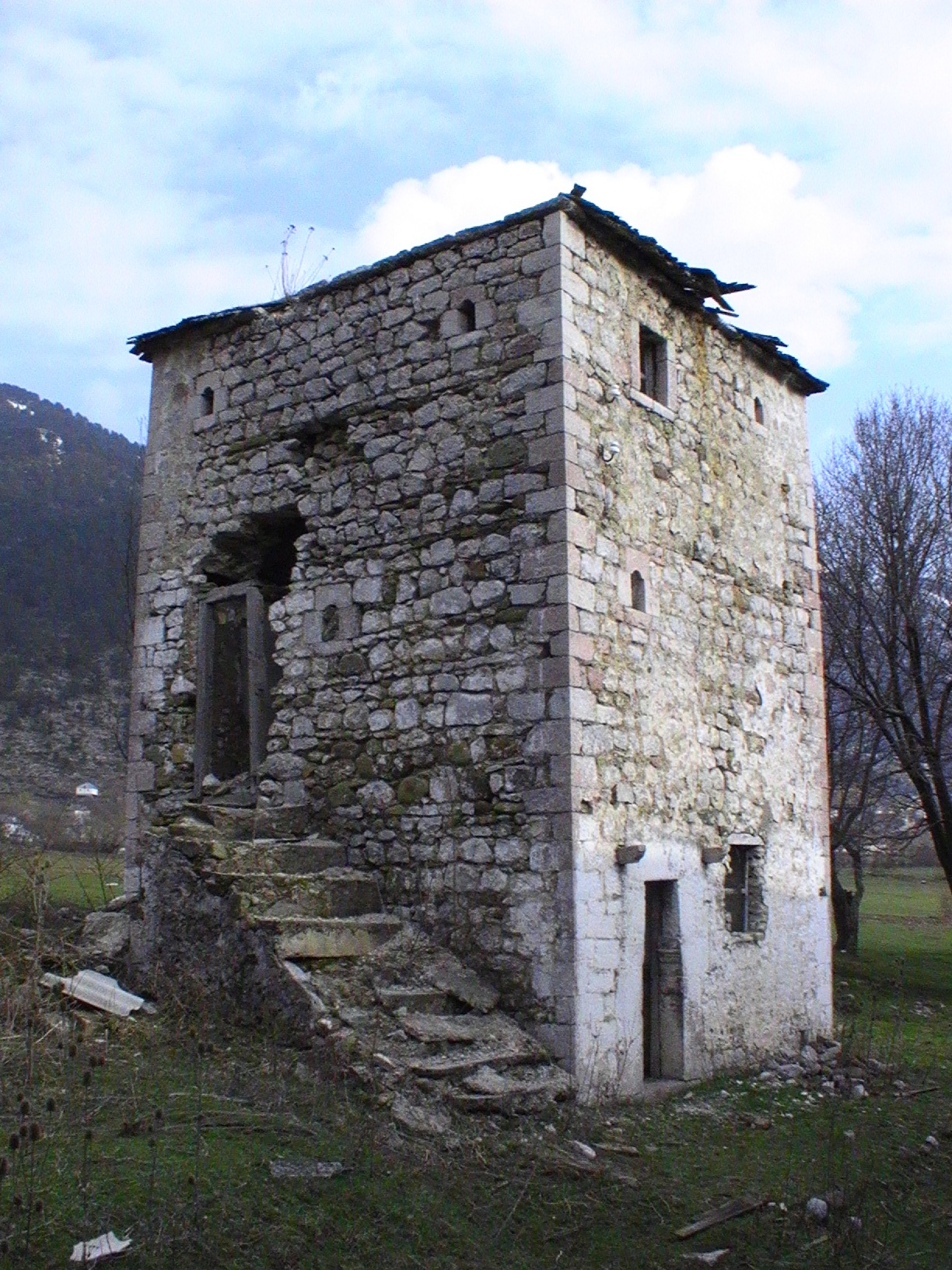 A kulla (fortified tower house) in Lurë, Albania